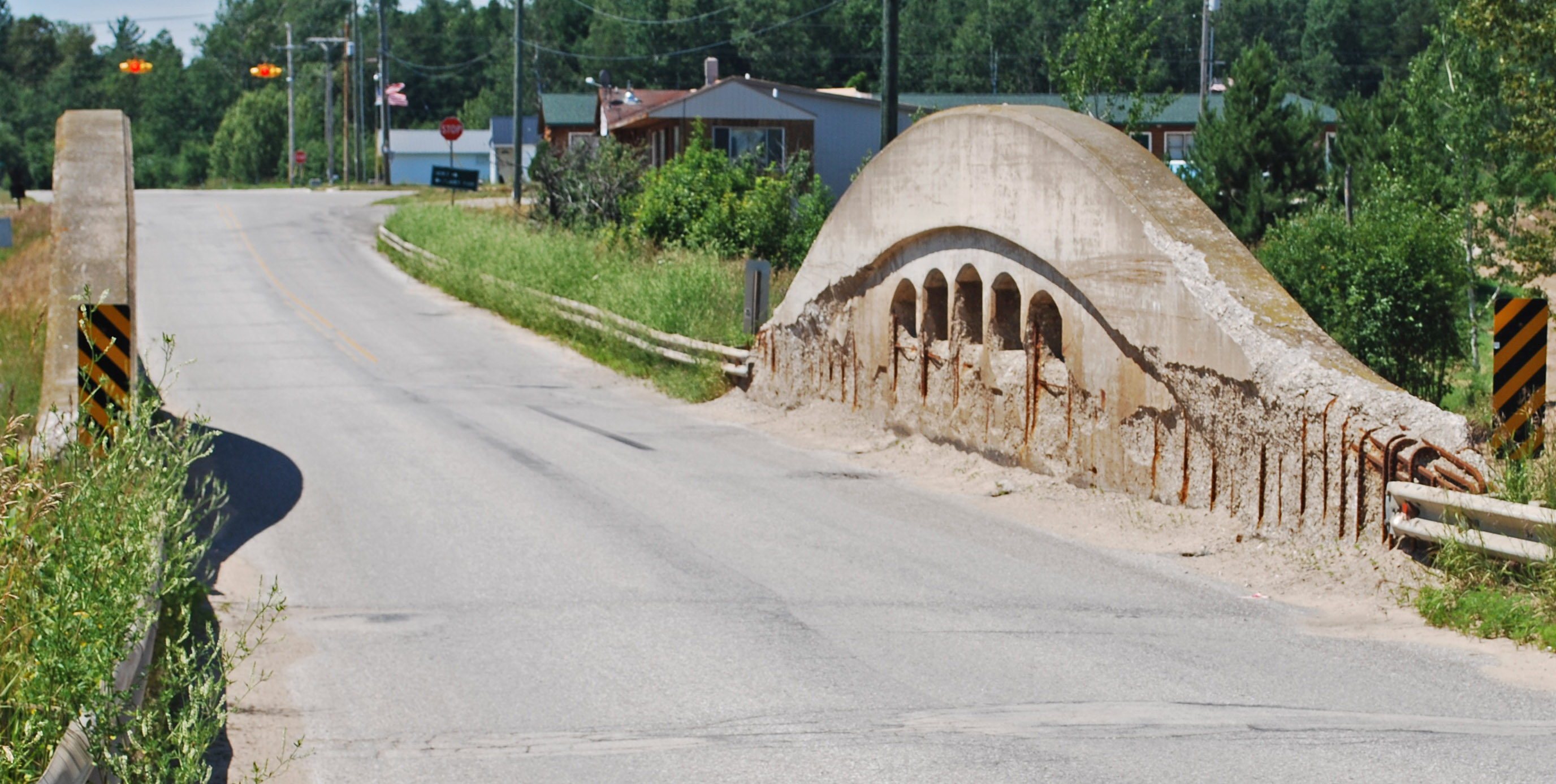 Ten Curves Road-Manistique River Bridge Schoolcraft County MI